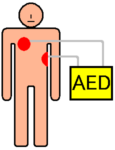 The positions AED-pads when use AED(Automated External Defibrillator). Right chest and left flank(Colored RED).